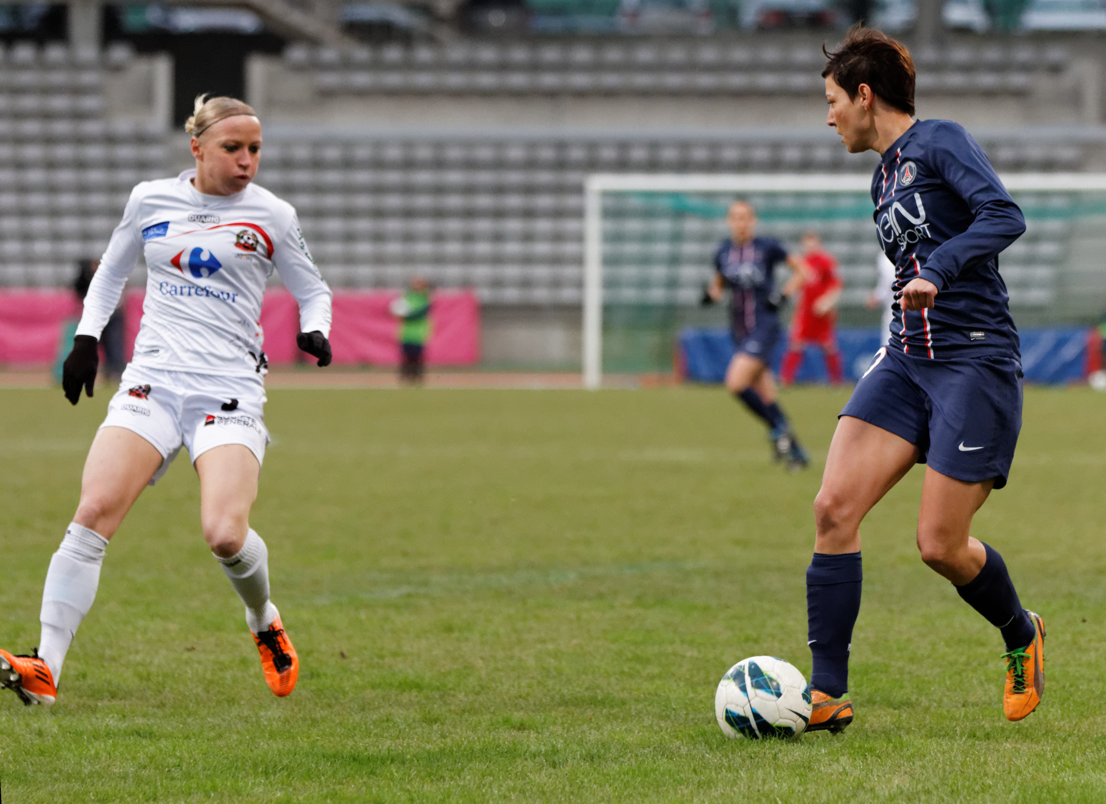 PSG-Juvisy, december 9th, 2012. Player of PSG.